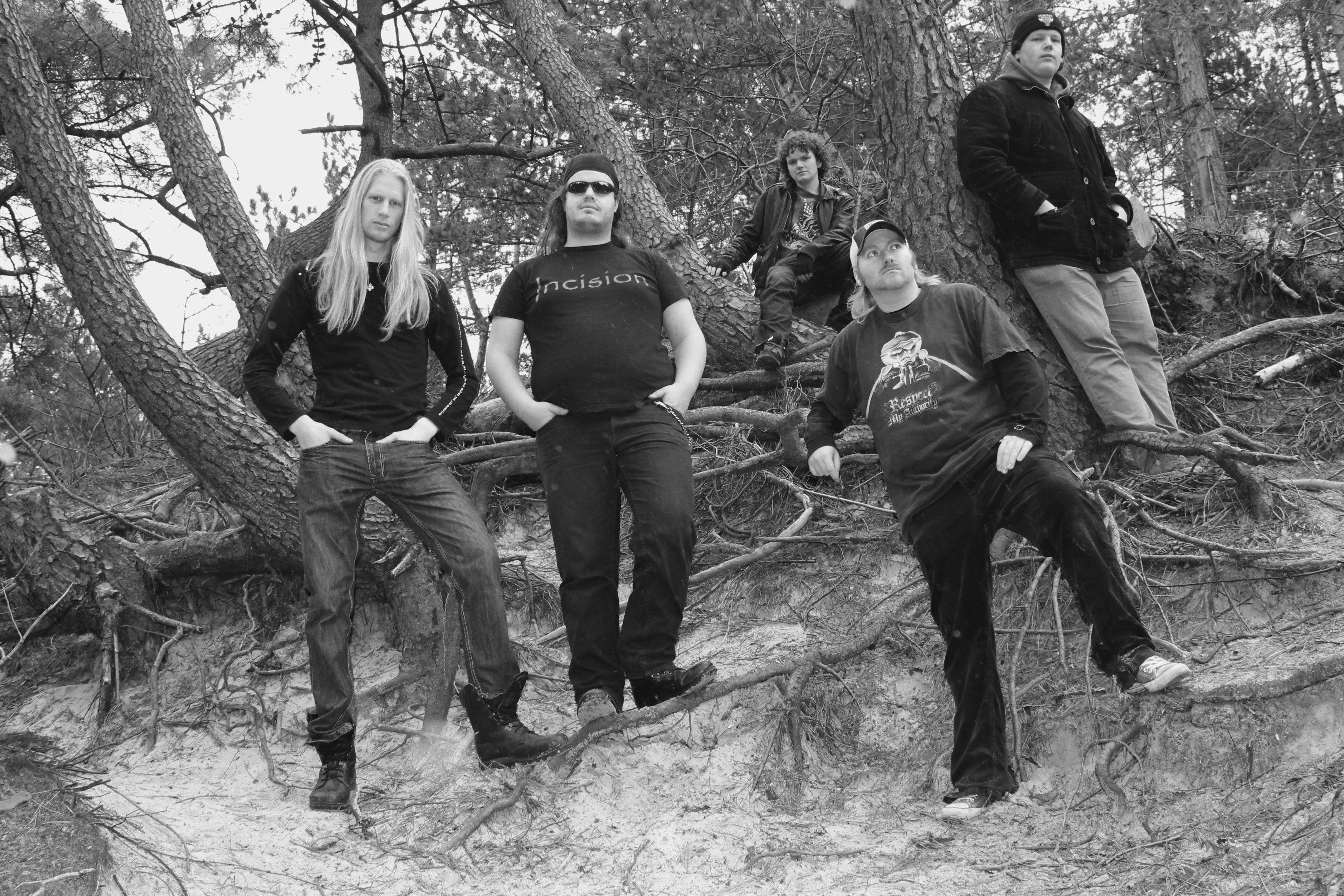 This is the first promotional photo for the band Incision (2013 line-up) l-r, Jesse Peetoom (Vox) Sam (Drums) Roy (Rhythme guitar) JB (Lead guitar) Jim (Bassguitar)